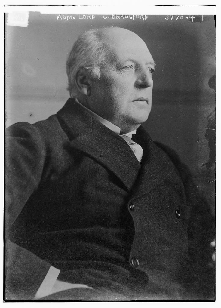 Lord Charles Beresford circa 1915